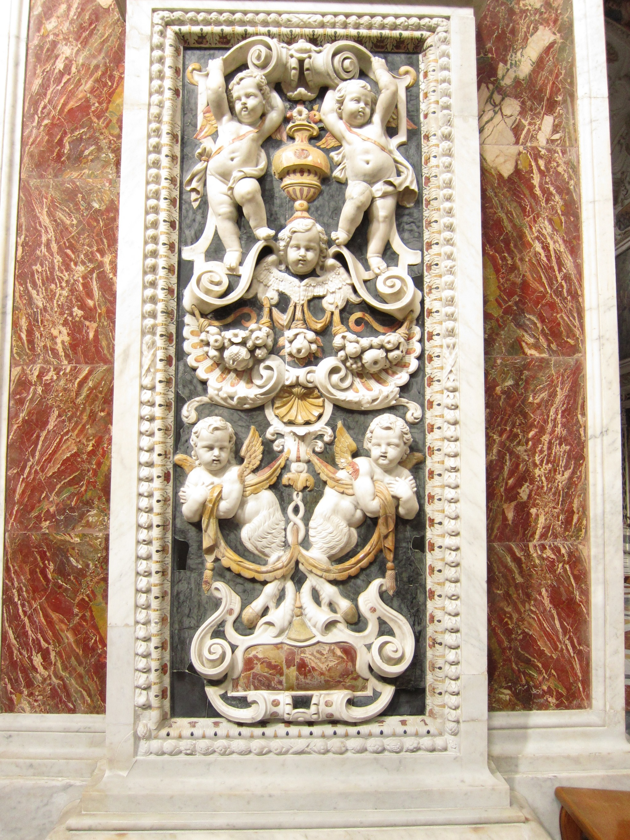 Detail of marble carving on column, Chiesa del Gesu, Palermo